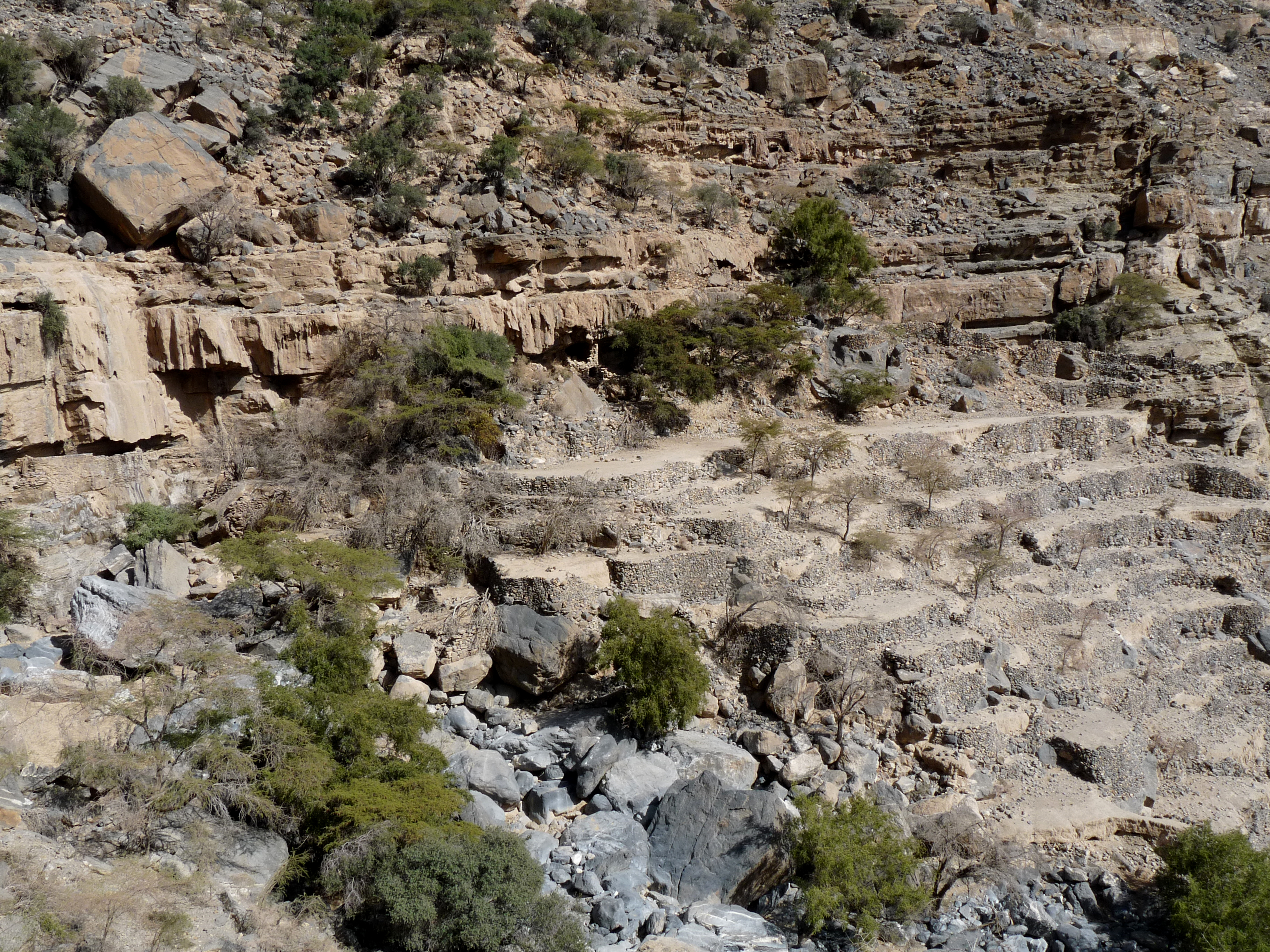 Former agricultural terraces in Sap Bani Khamis (abandoned village in Northern Oman, Jebel Shams)